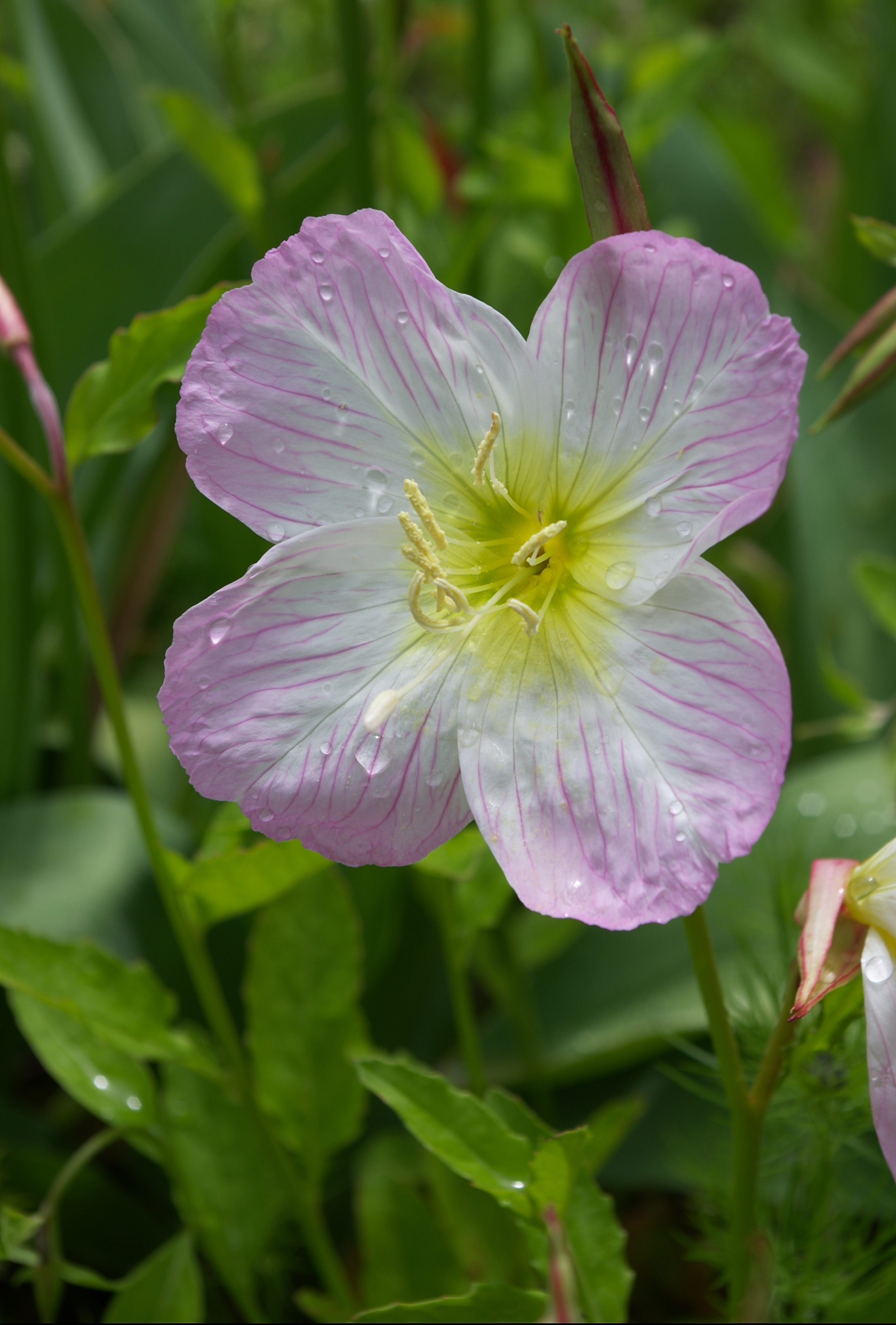 Oenothea Siskiyou (Oenothera speciosa) in a garden, France.